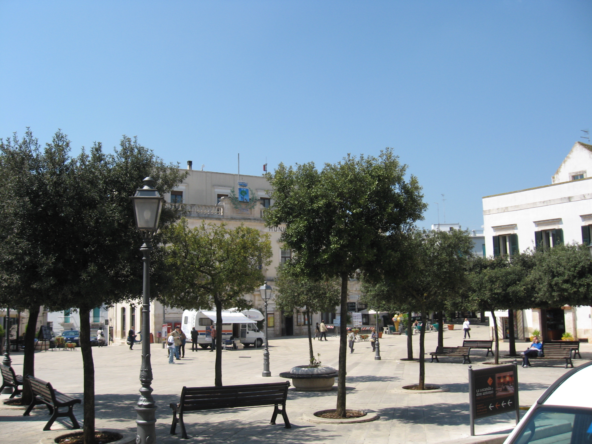 Piazza Del Popolo